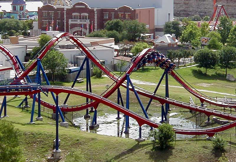 Two corkscrews on the Superman Krypton Coaster at Six Flags Fiesta Texas in San Antonio, TX.